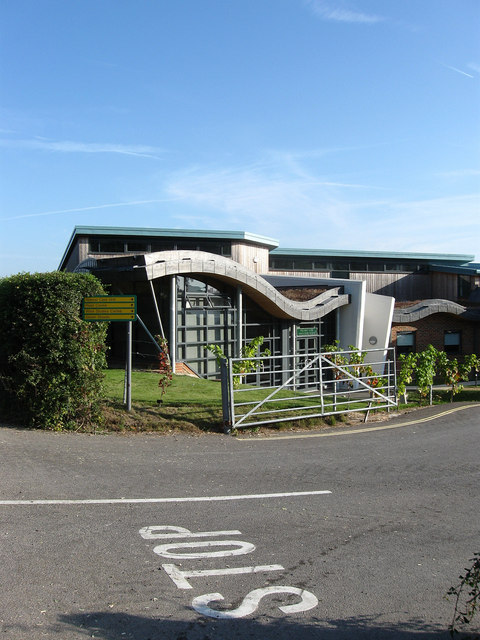 Wine Science Centre, Plumpton College Recently opened building to house the growing department of viticulture. The college produces its own wine from vines grown on its estate by the students.